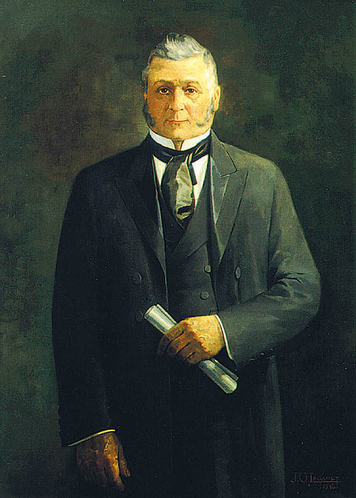 Barthelemy Joliette, by Jean-Onésime Legault (1936), oil on canvas, Musée d'art de Joliette